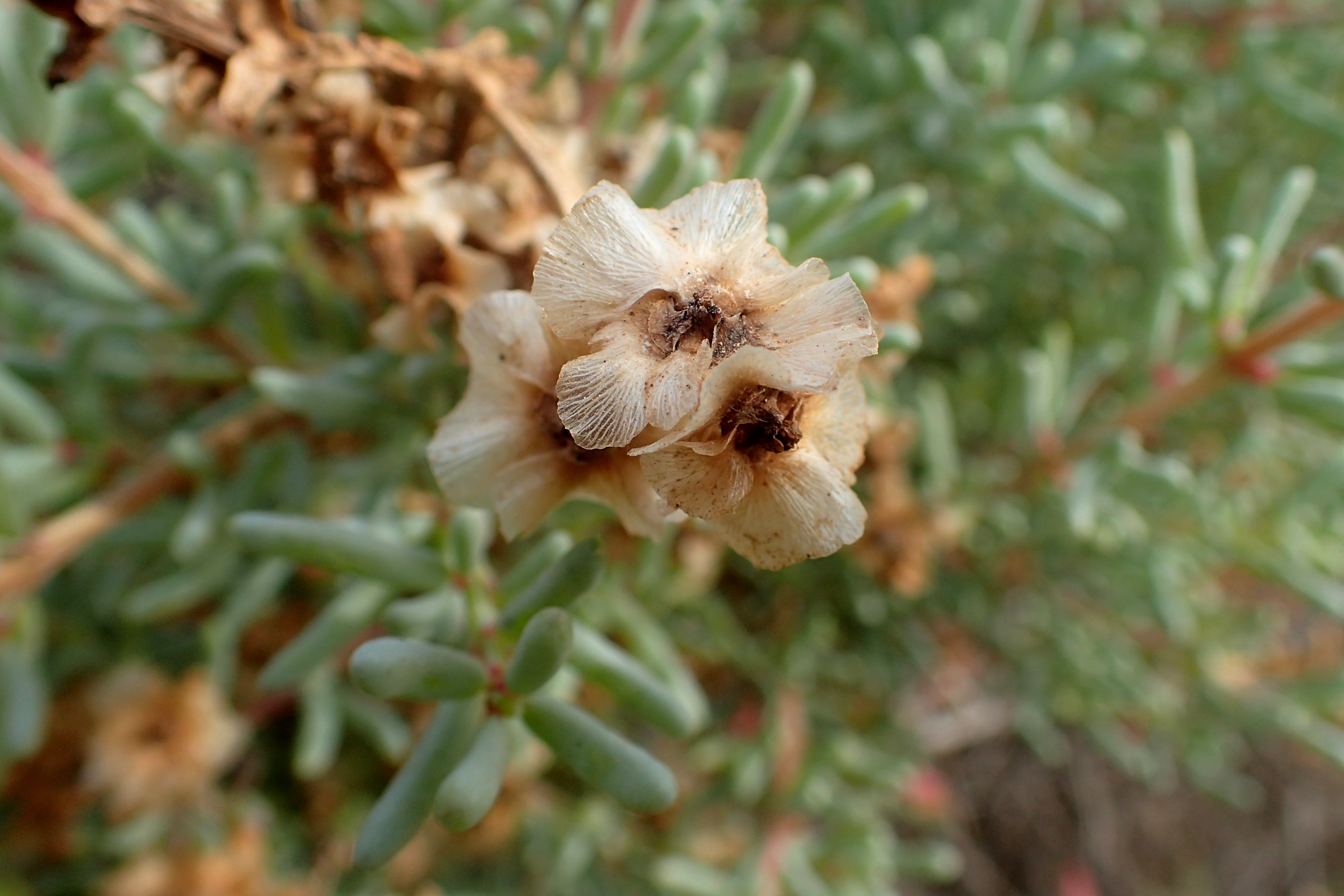 Salsola divaricata in Playa de las Tejitas, Tenerife